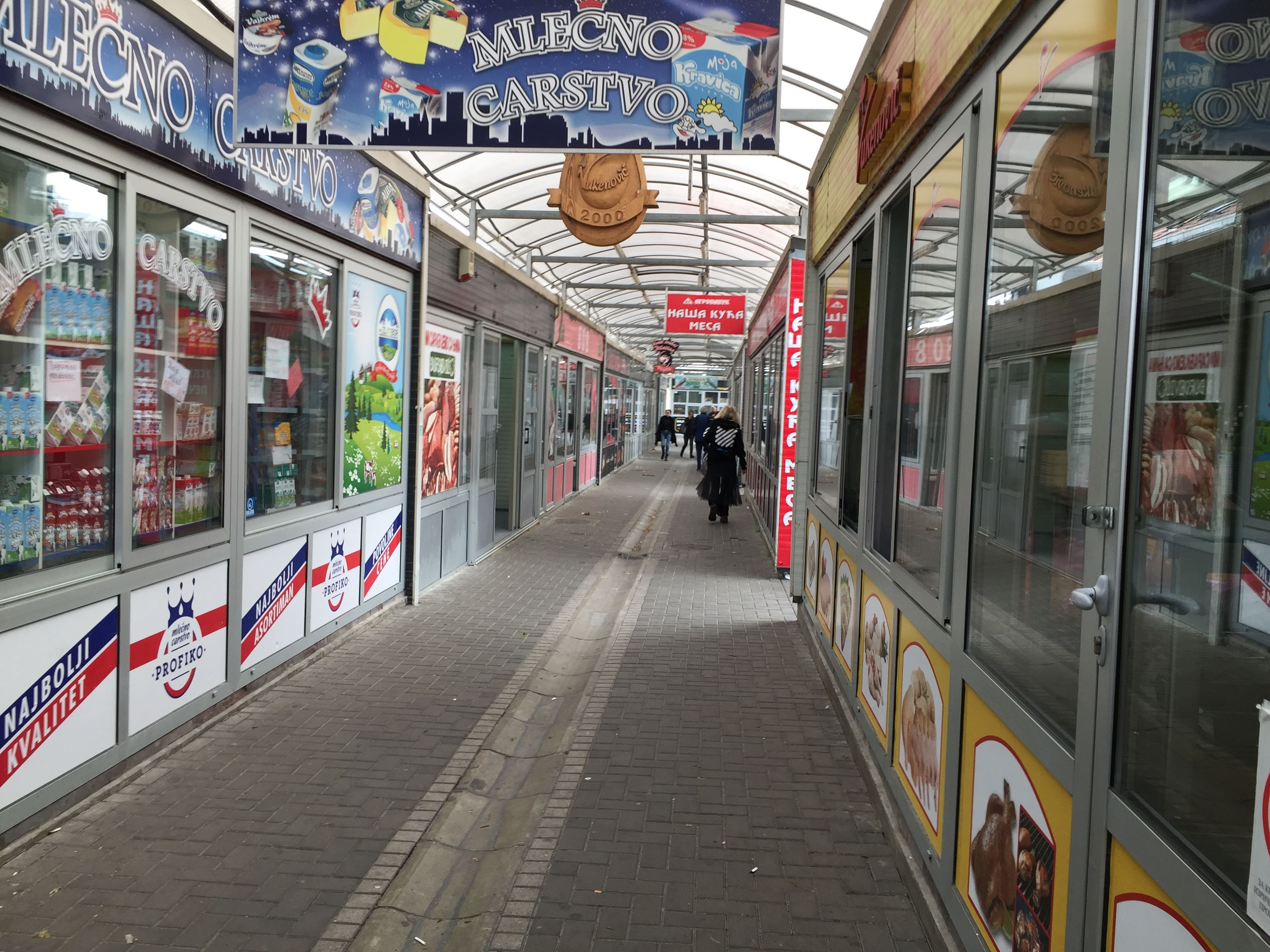 Zemun Marketplace